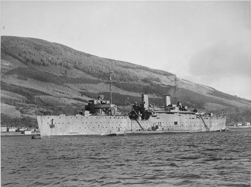 HMS Forth Secured to a buoy in Holy Loch. HMS SEA NYMPH (P.223) secured to port side.